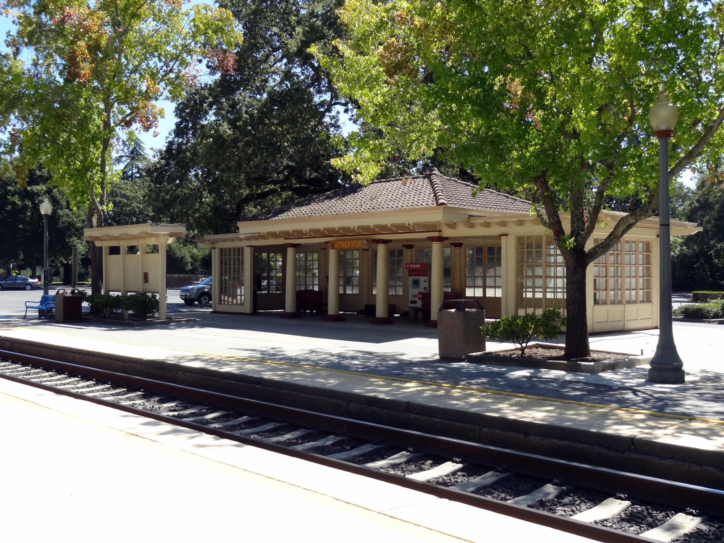 Caltrain Atherton Station, viewed from northbound island platform.